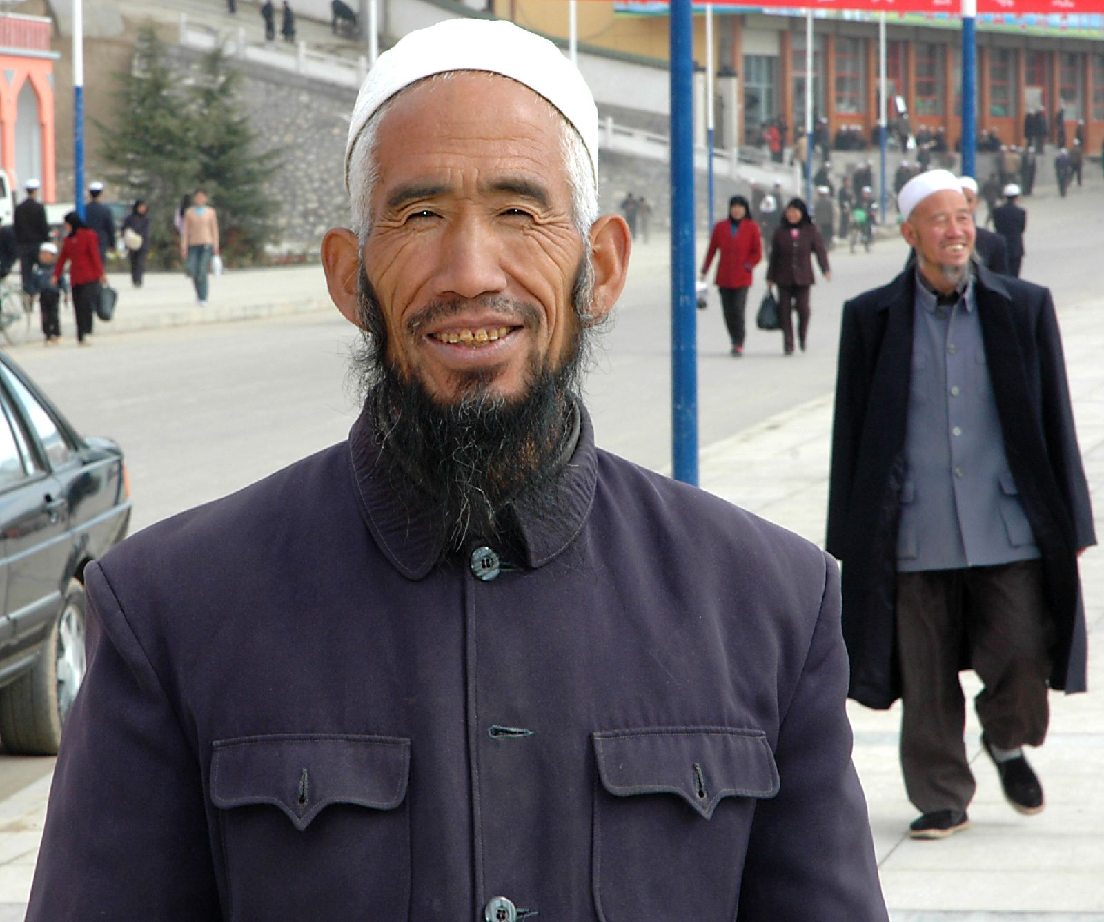 These gruff looking characters were only too happy to pose, and then they were delighted to see their pictures on the camera display. Dongxiang ethnic people are Muslim and predominate in the aptly named Dongxiang County in the mountainous south-east of Gansu province. Dongxiang is a 'national poverty county' in China which means it is very poor.